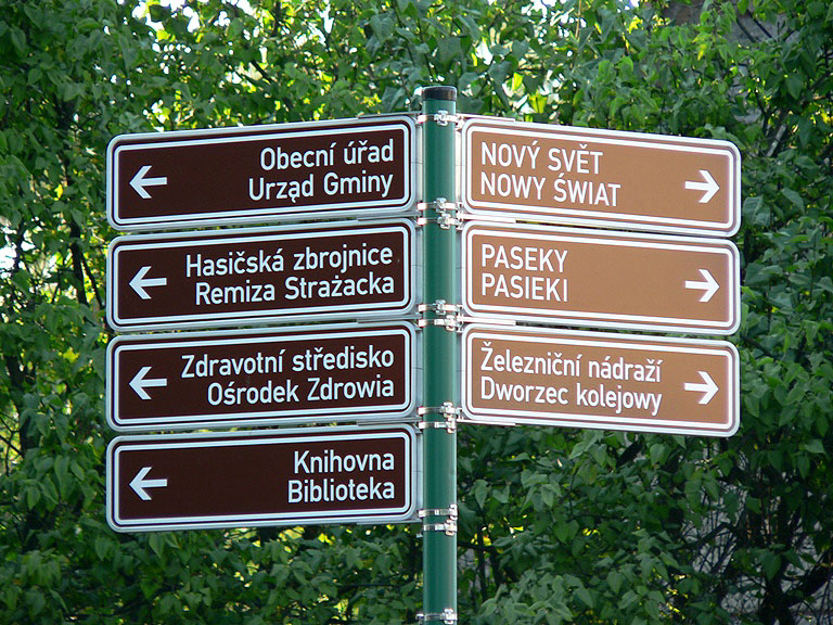 Description: Bilingual signs in Albrechtice (Olbrachcice), Czech Republic. Date: 26 July, 2007 Camera: Panasonic DMC-FZ20 Author: Czesil